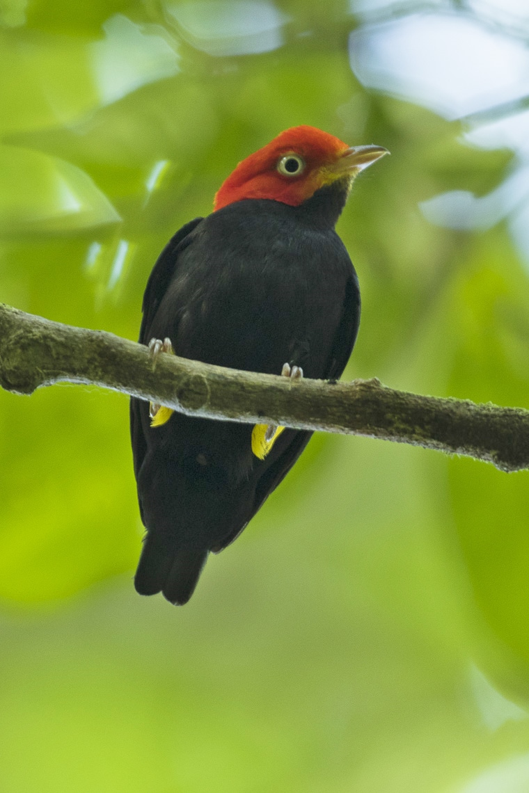 Red-capped Manakin - Rio Tigre - Costa Rica_MG_8090